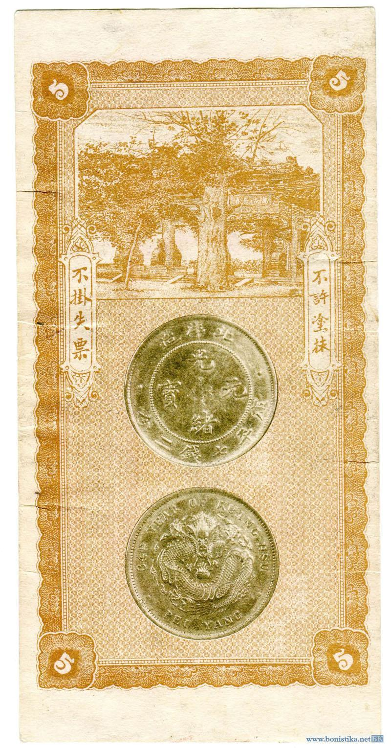 A historical Chinese banknote from the website.